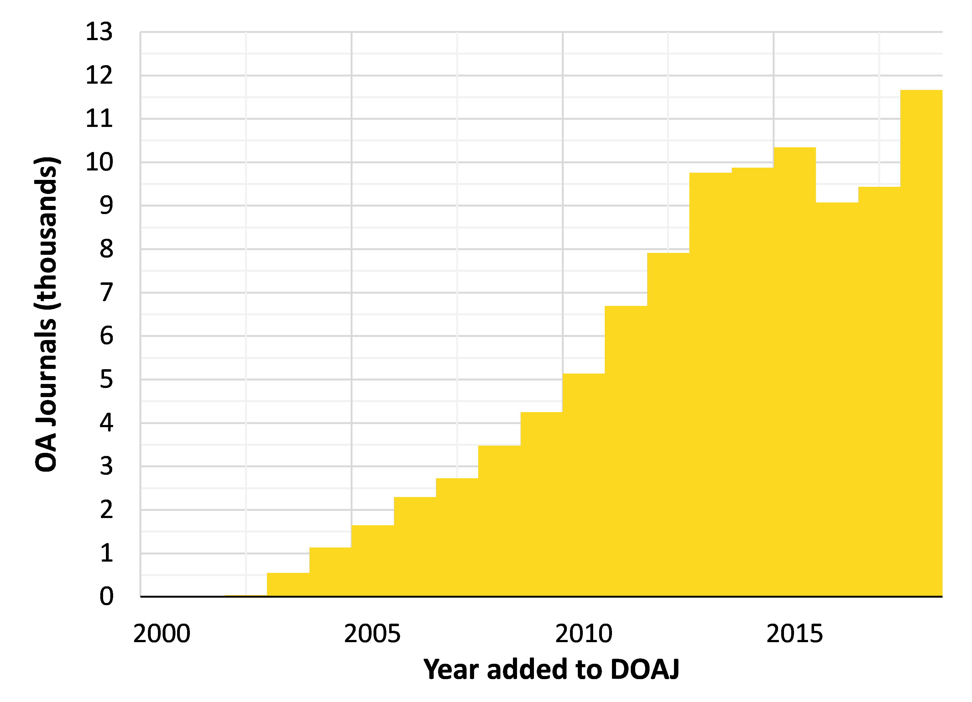 The number of journals listed in DOAJ. Data from: Morrison, Heather, 2014, "Dramatic Growth of Open Access", Scholars Portal Dataverse, V22; 20150630fulldata.xlsx [fileName]